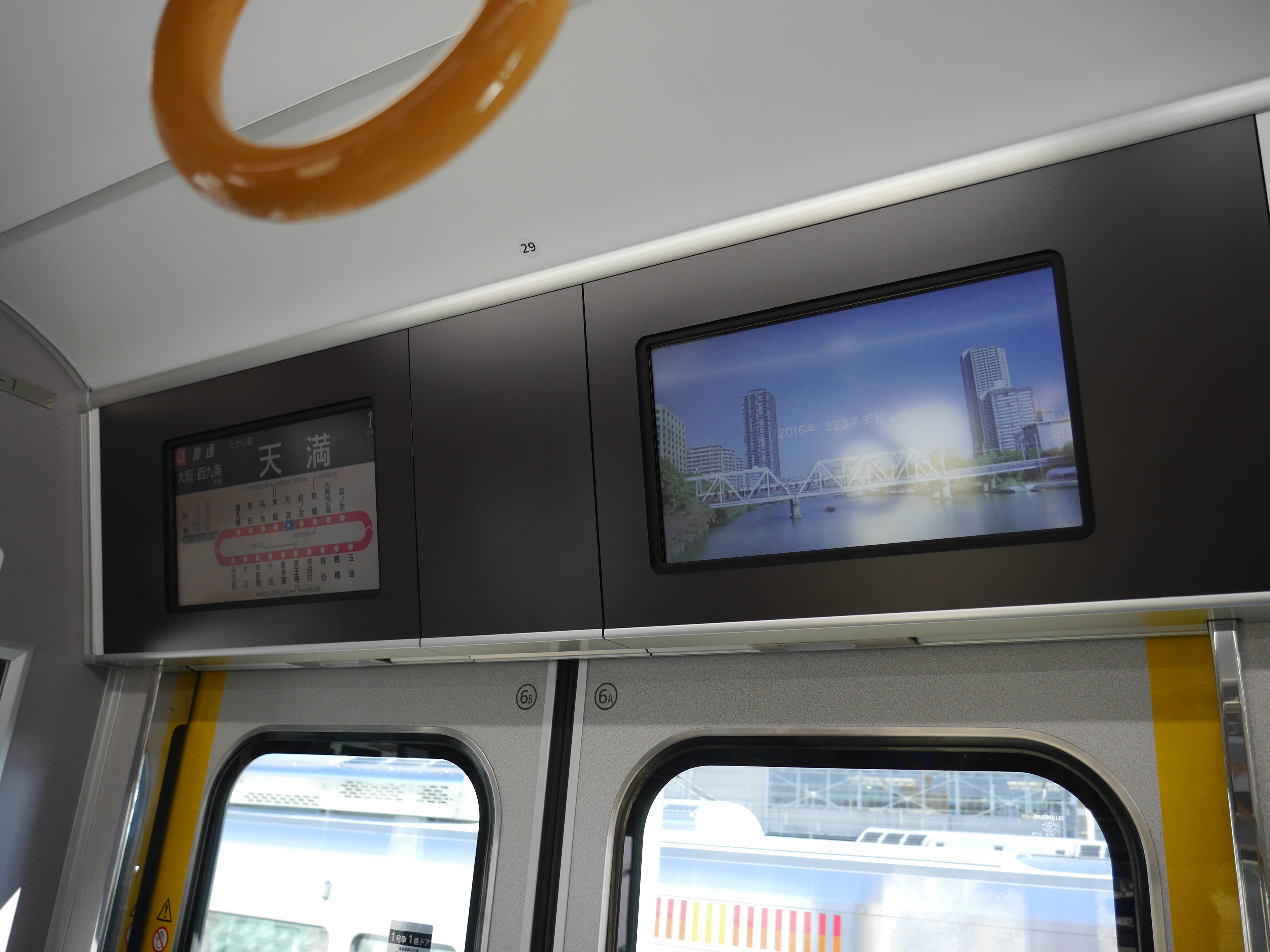 LCD over passenger doors on JR West KUMOHA 322-1 driving motor car